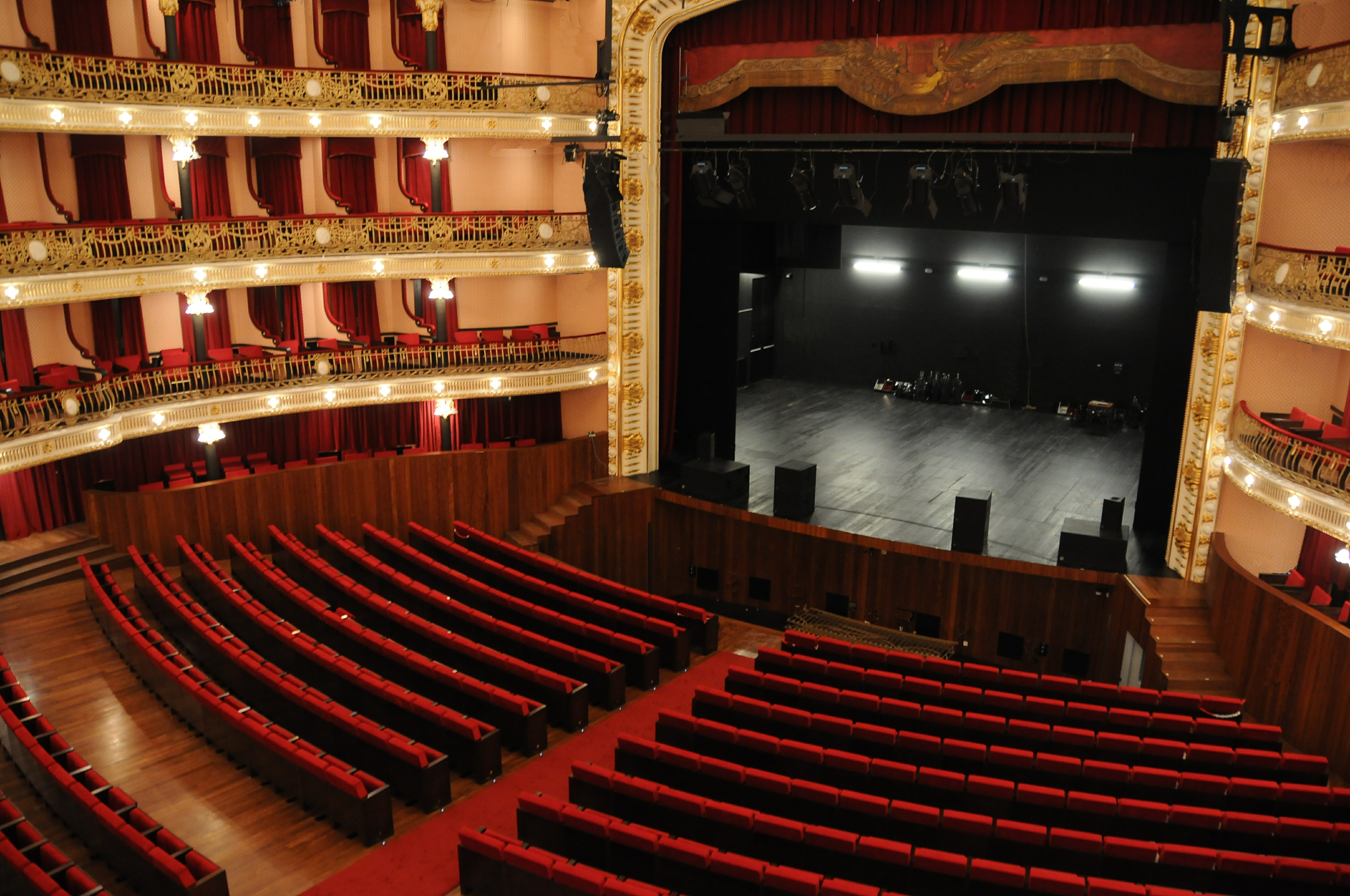 Theatro Circo, in Braga, Portugal